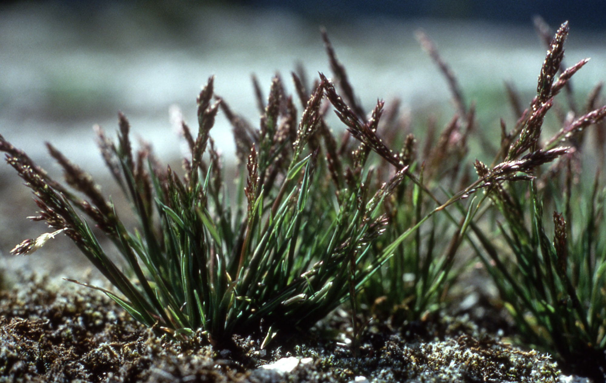 Agrostis rossiae along the Firehole River of the Upper Geyser Basin in Yellowstone NP